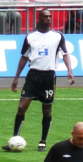 Leo Fortune-West warming up for Cambridge United against Exeter City at Wembley Stadium, London on 18 May 2008